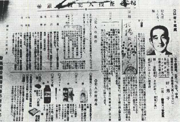 Teigin case